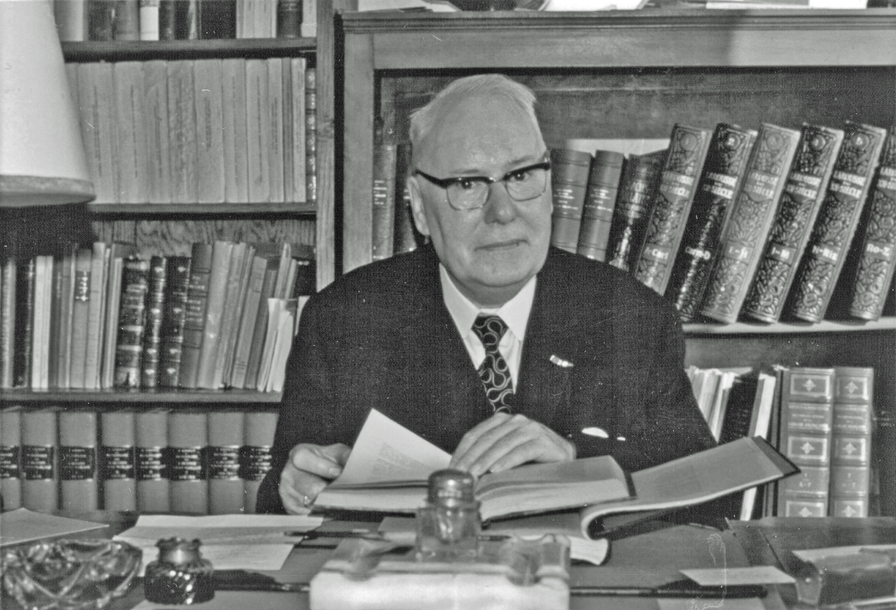 Omer Jodogne, at home, in his study room, 1960.